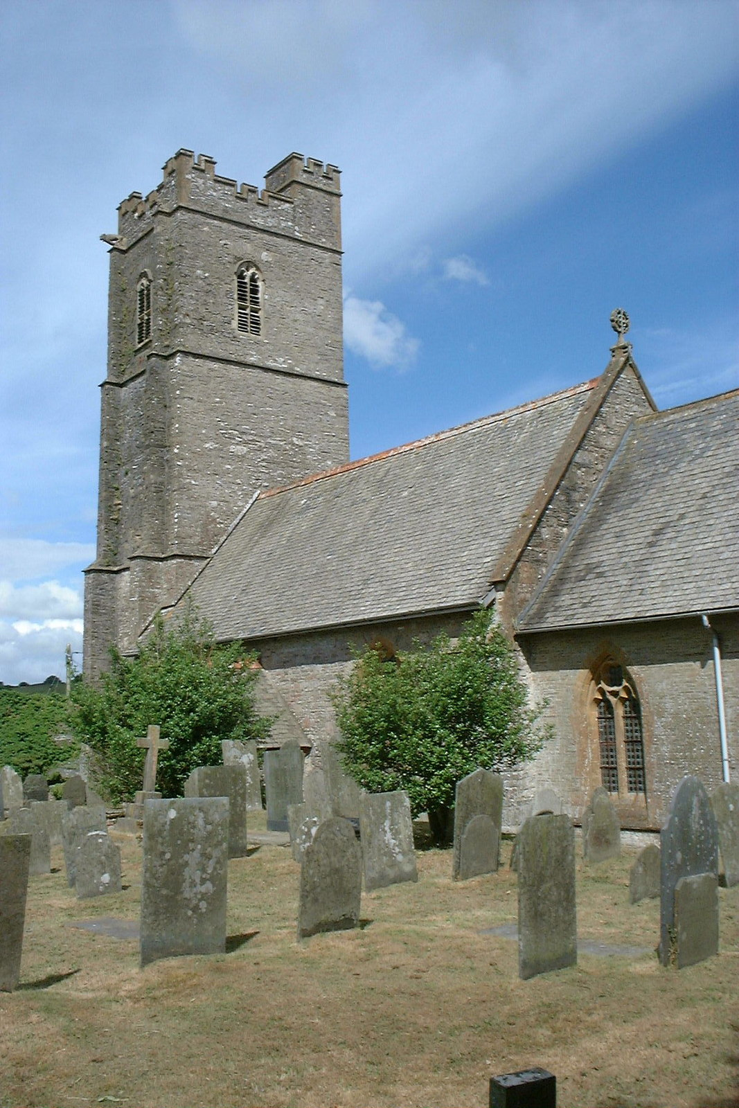 Nave and west tower of St Thomas's parish church, Kentisbury, Devon, seen from the southeast